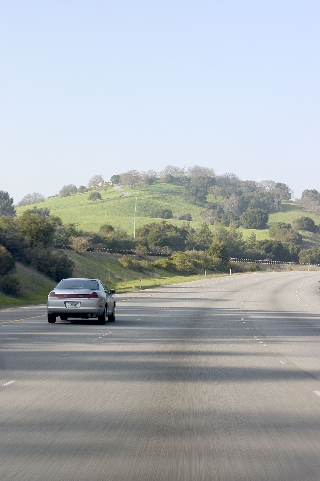 A view of the scenic portion of Interstate 280 in California, heading North.